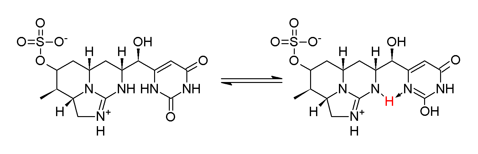 Cylindrospermopsin tautomers